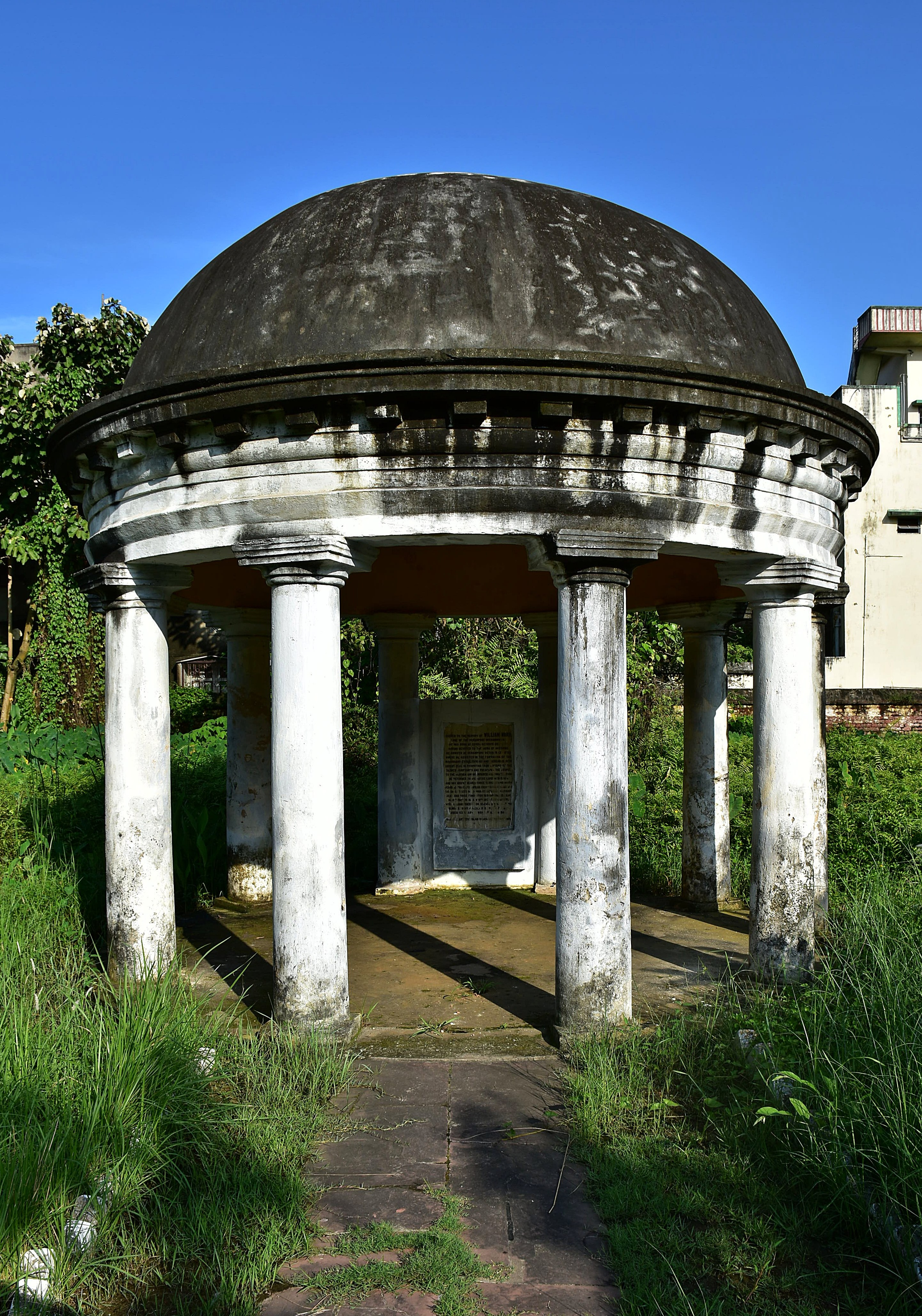 i) Danish Cemetery ii) All ancient structures, all tombs stone monument remains and inscriptions within the area enclosed by the said walls